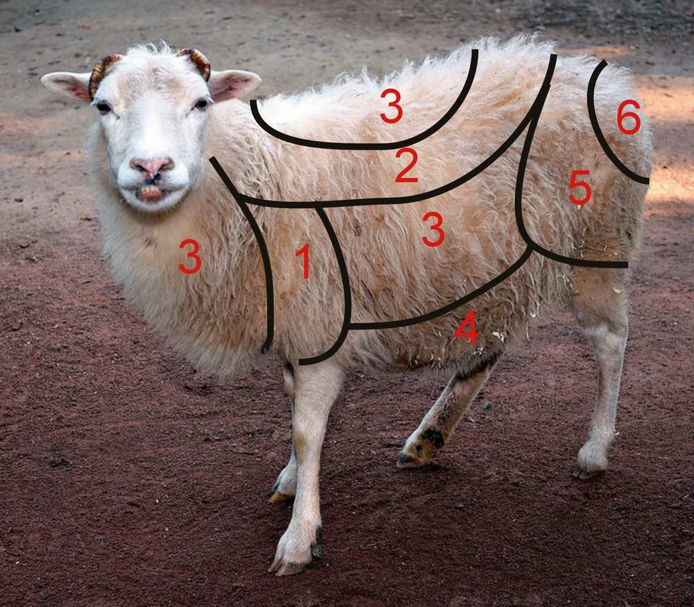 Sheep "Skudde" This image shows a Sheep (Ovis orientalis aries) of the race "Skudde". The annotations illustrate the quality of the wool fleece (1 is the best quality, 6 is the worst).